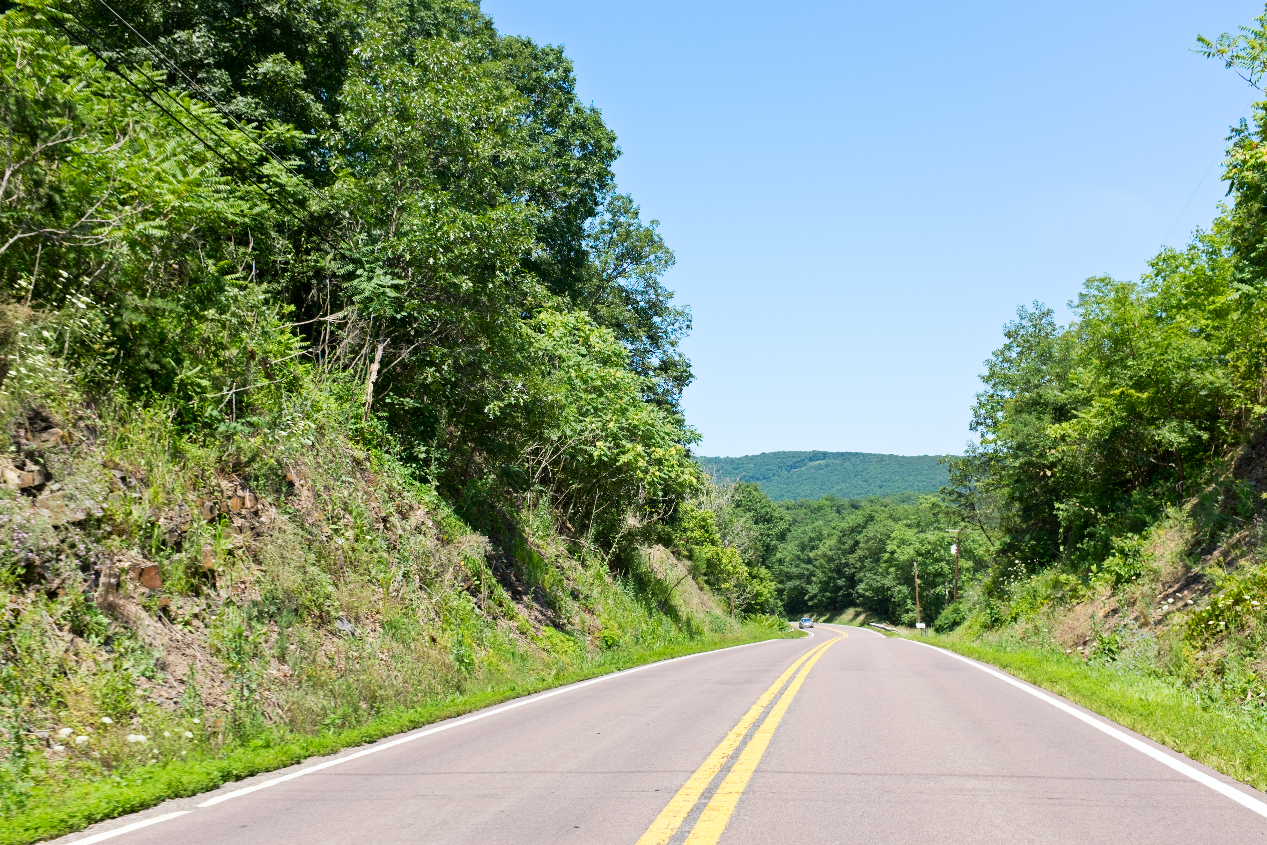 Maryland Route 51 looking east. This is in Western Maryland, around Oldtown